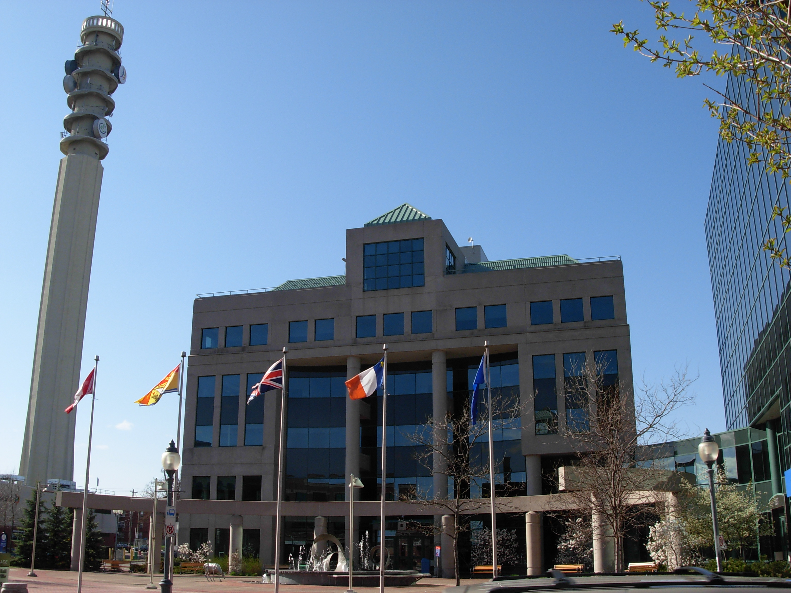 An Image of Monctons city hall.